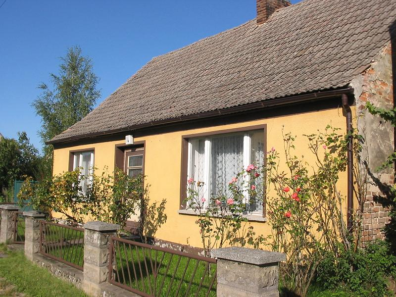 Building Dorfstraße (german for villagestreet ) No. 14 in Gömnigk. The village Gömnigk is a part of the town Brück in the district Potsdam Mittelmark, state Brandenburg, Germany, at the border to the natural preserve Naturpark Hoher Fläming.